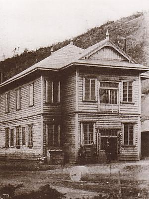 Esutoru Town Office